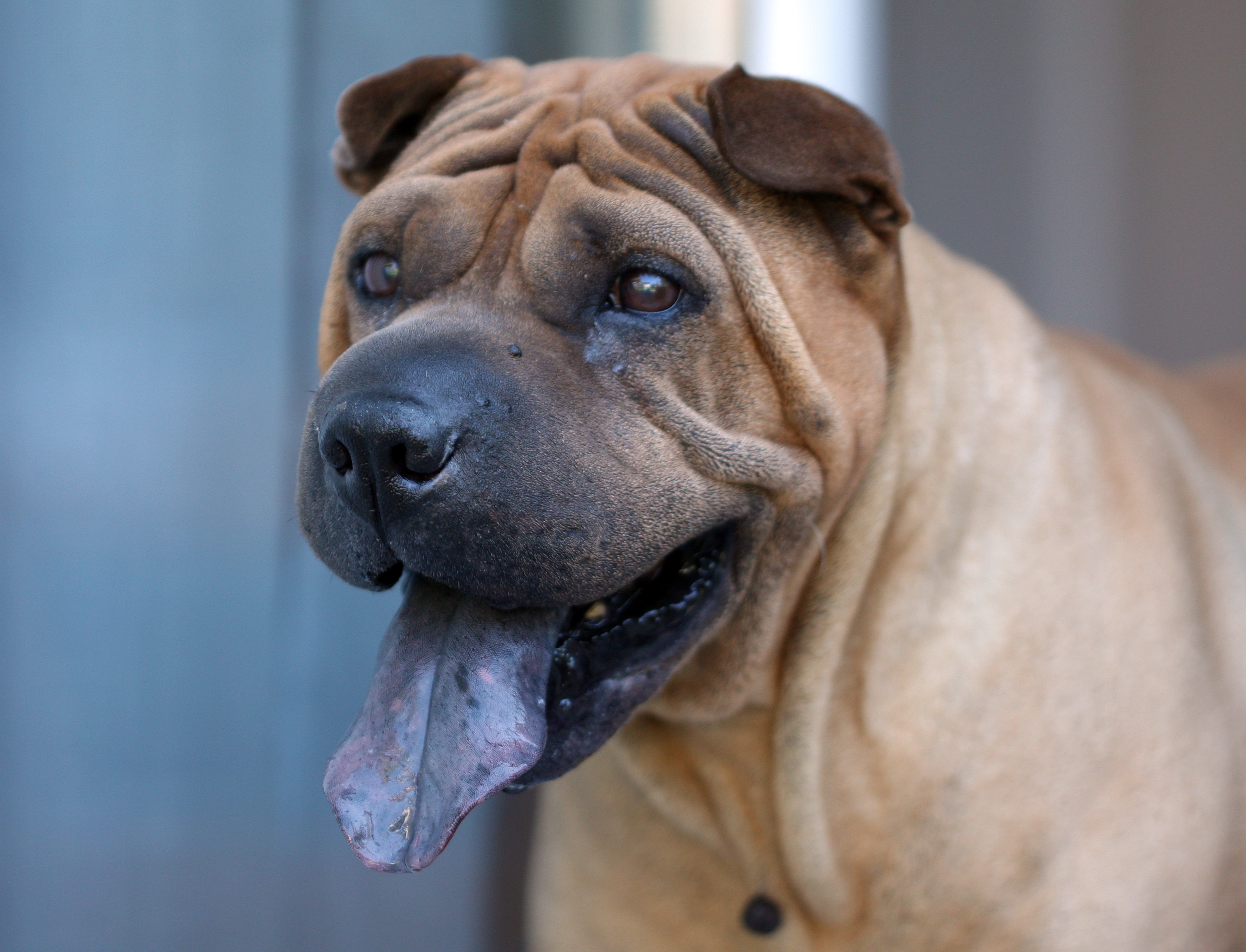 Female Shar Pei dog featuring the characteristic purple tongue.